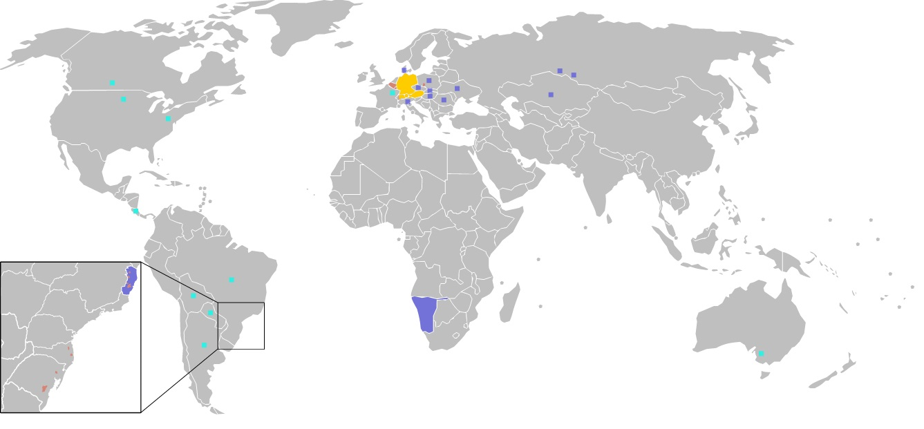 Legend: native language Secondary language "national language" or non-official. German minorities